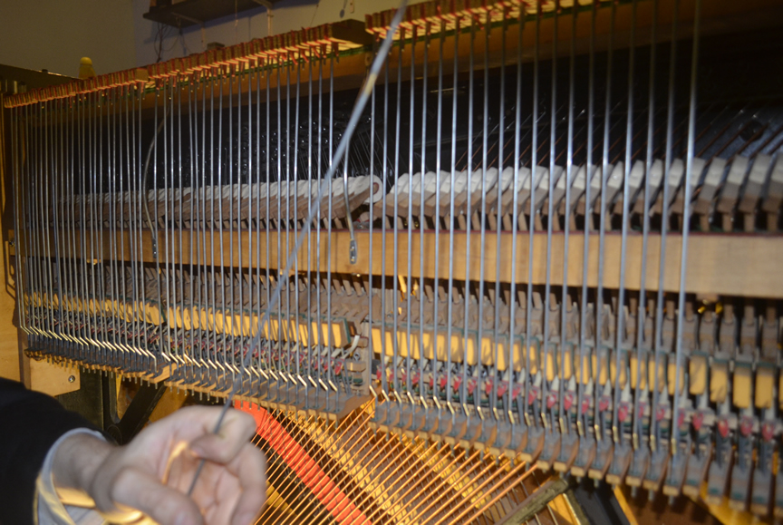 After removing the braceless back of the 'Pianette' model minipiano, a set of metal rods is revealed preventing access to the internal mechanisms of the instrument.